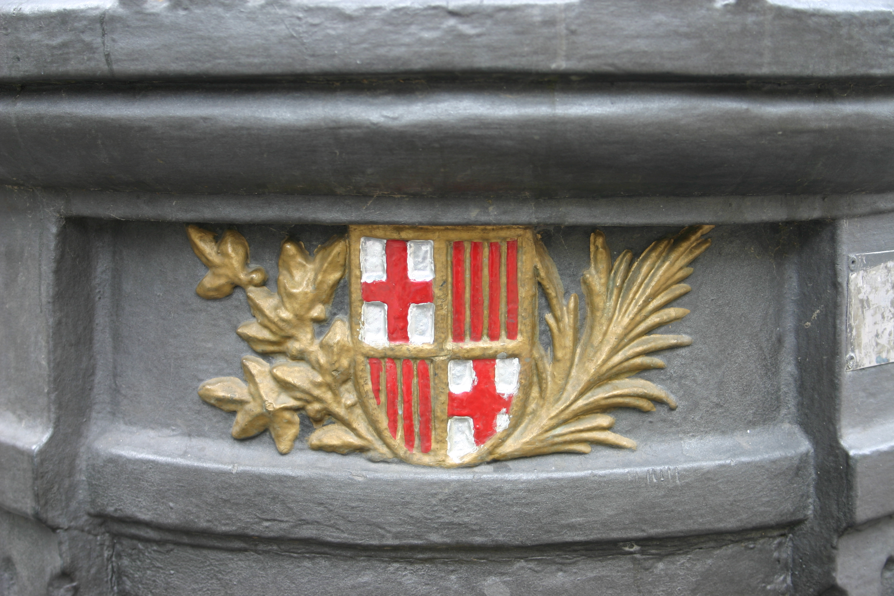 Detail of Canaletes Fountain, Barcelona